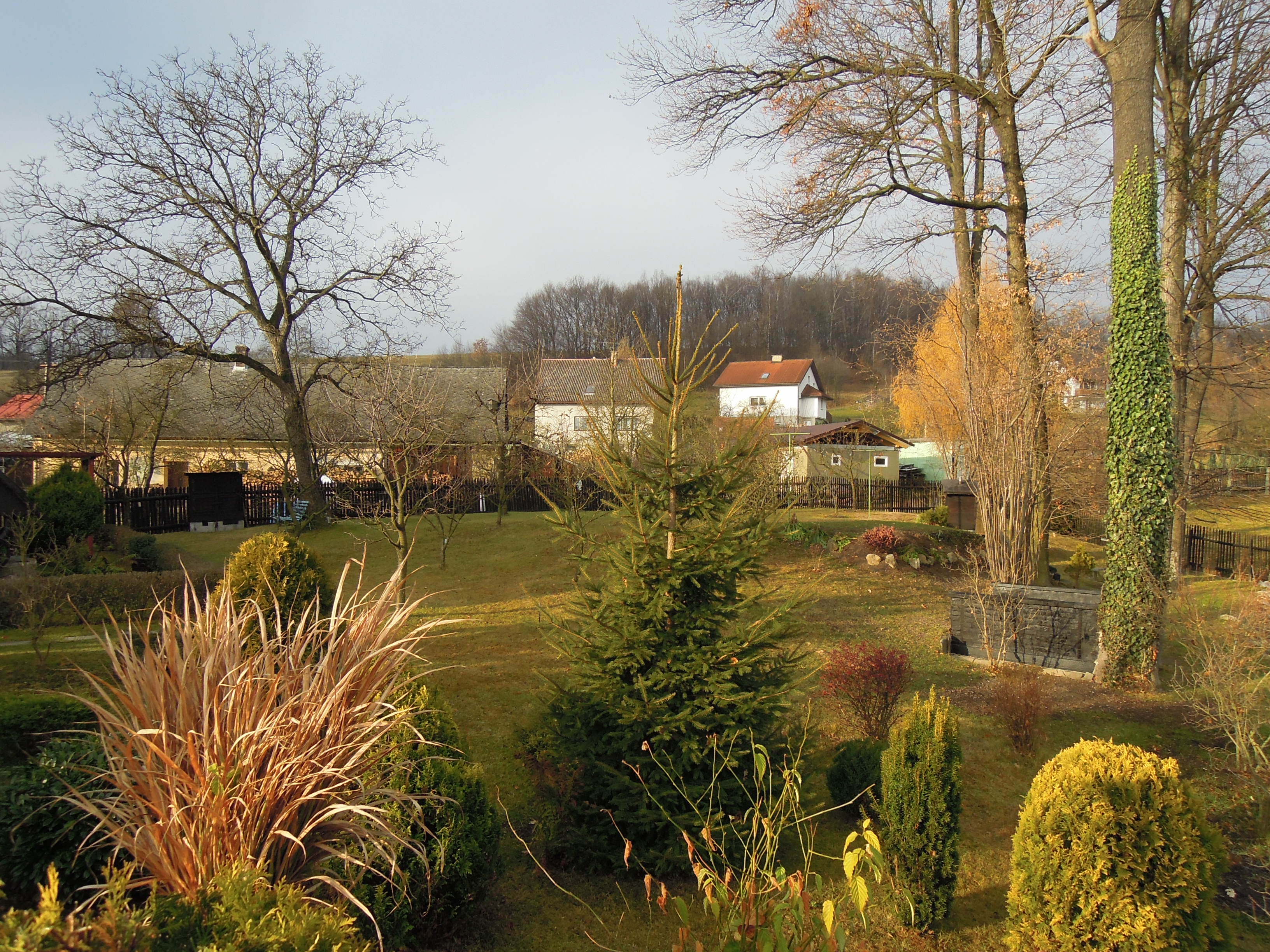 Natural monument Zubří in Zubří, Vsetín District, Zlín Region, Czech Republic